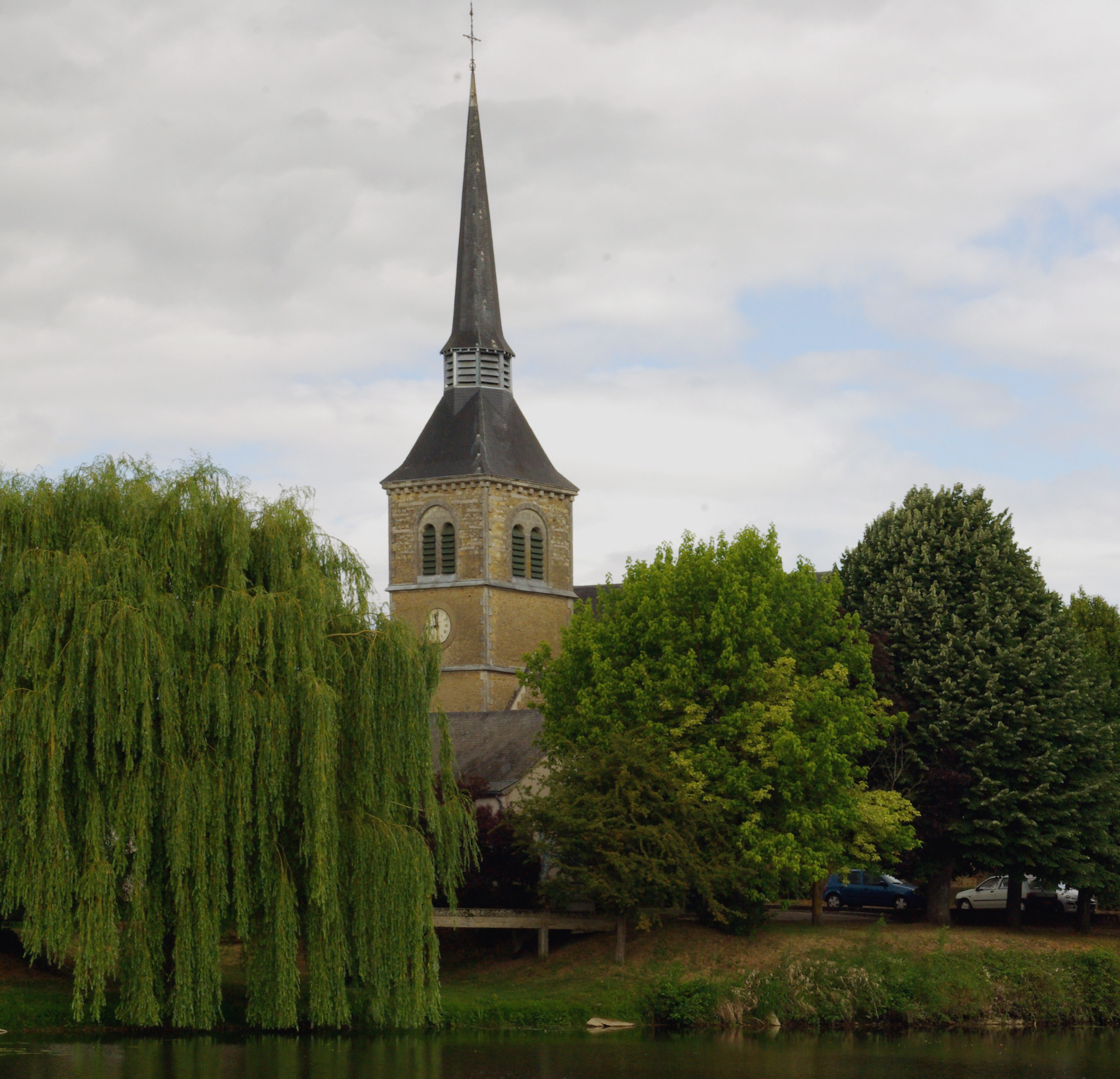 Church Fillé-sur-Sarthe